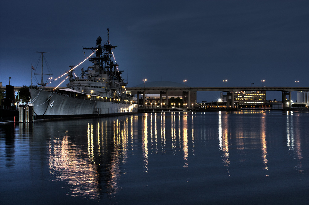 USS LITTLE ROCK CL-92, Later CLG-4 Length: 610 feet Beam: 66 feet Draft: 25 feet Displacement: 10,670 tons Armament: Two Mk II talos Missile Launchers; Three 6-inch guns; two 5-inch/38 caliber guns Complement: 1,100 enlisted; 150 officers; 150 Marines Cleveland class cruiser, later converted to Little Rock class guided missile cruiser. Launched August 27, 1944 and then commissioned June 17, 1945 at Cramp Shipbuilding Company, Philadelphia, PA. Converted in 1960 at New York Shipbuilding Corporation, Camden, NJ. Decommissioned November 1976. The Little Rock was the first ship to bear the name of Little Rock, Arkansas. The only guided missile cruiser on display in the U.S., USS Little Rock is the sole survivor of the Cleveland class, the most numerous of U.S. wartime cruisers (29 vessels total). The Little Rock made four cruises to the Mediterranean and two to the North Atlantic. She served with distinction as flagship for both the Second and Sixth fleets. USS Little Rock is now on display at this park and plays active parts in educational and entertaining activities such as overnight encampment programs and other events.